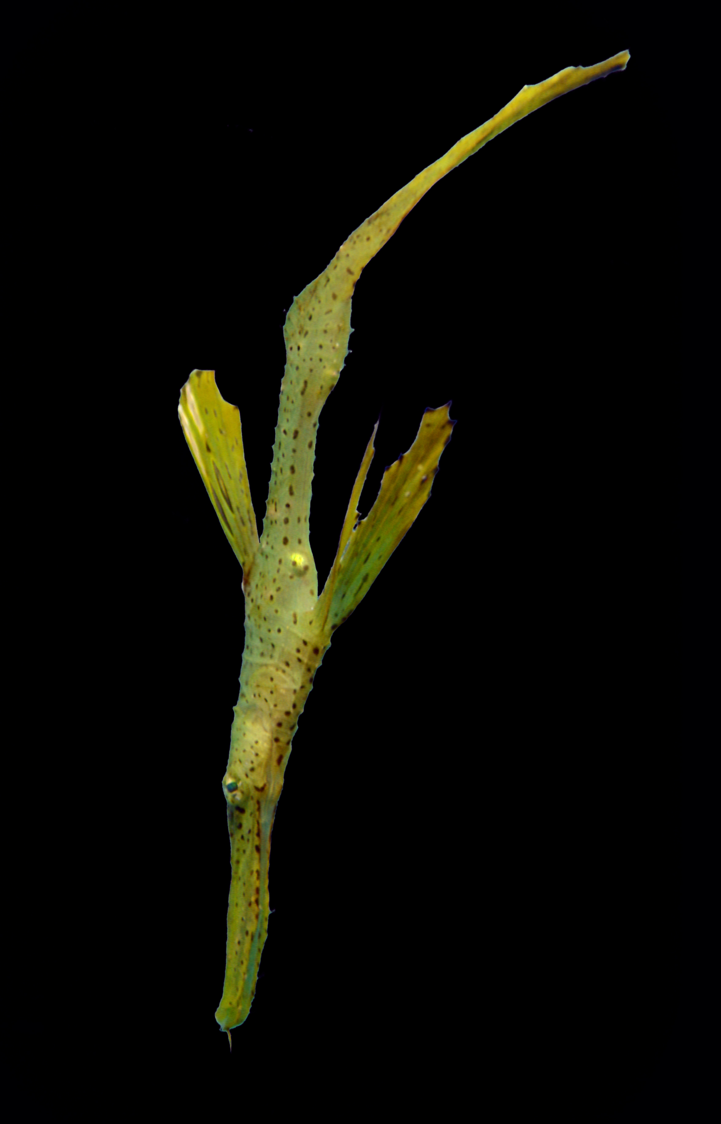 Solenostomus sp. in UShaka Sea World